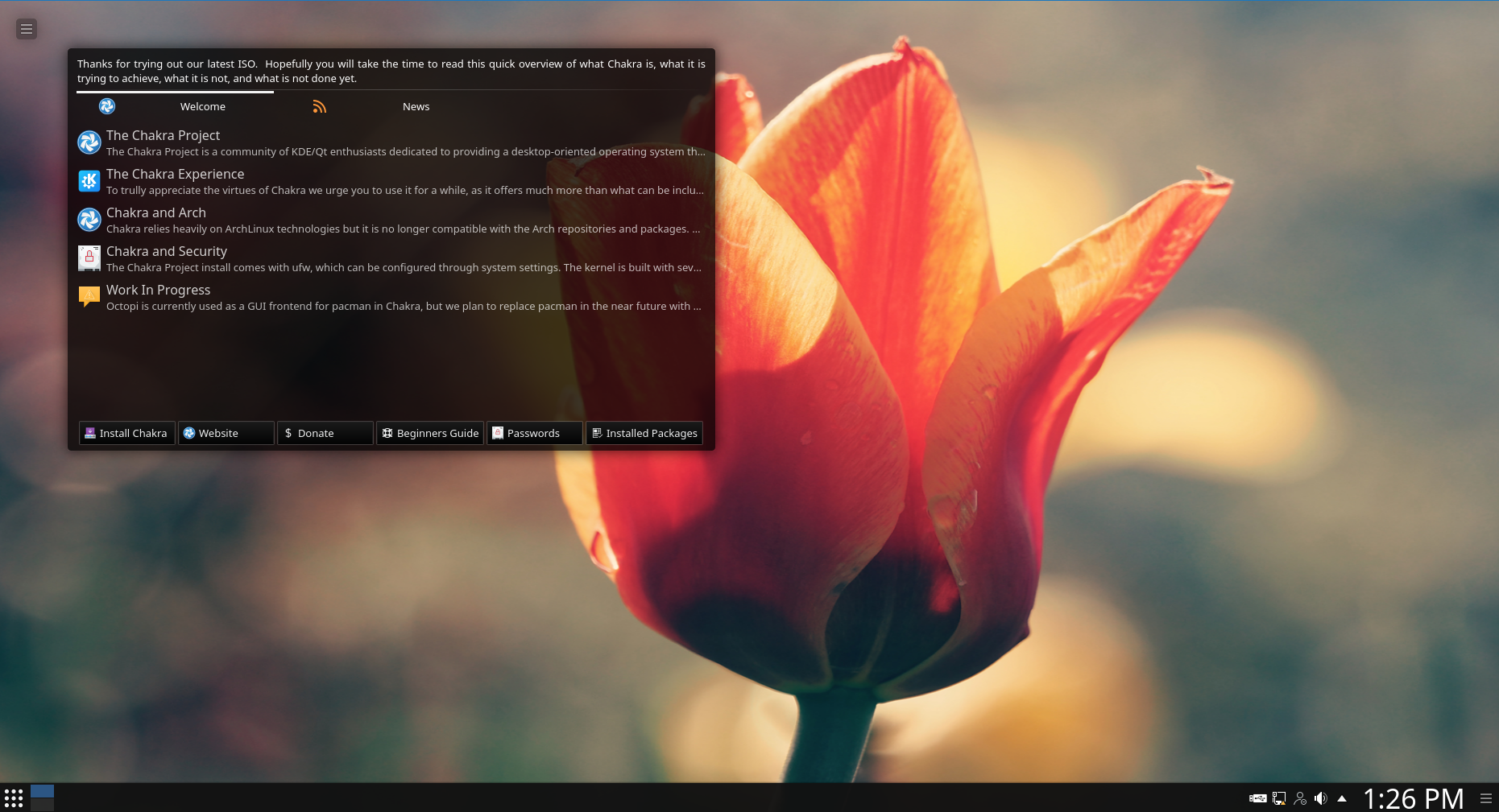 Screenshot of Chakra Goedel release.